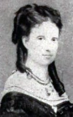 Archduchess Maria Isabella of Austria